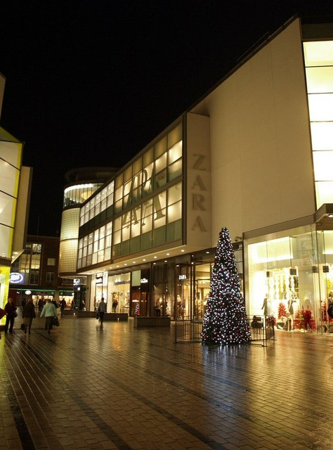 Zara, Exeter. The new Zara store is on Eastgate in the Princesshay shopping centre. The Christmas tree also features in 614373; Topshop is on the right.